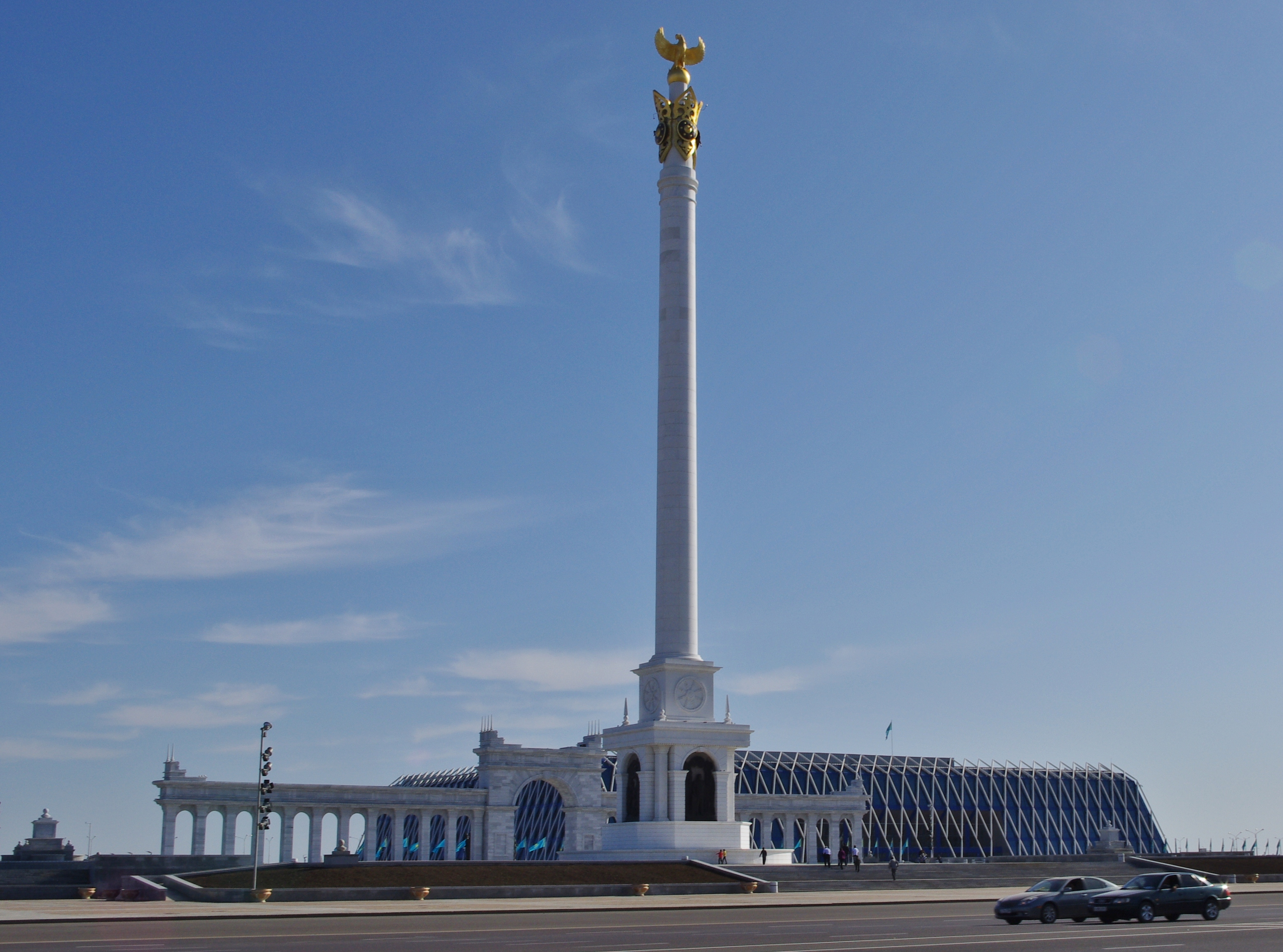 Kazakh Eli (literally, "Land of Kazakhs") is about 100 metres tall and has a mythlogical golden bird Samryk on the top. Monument is made from white marble and surrounded by very beautiful fountains.